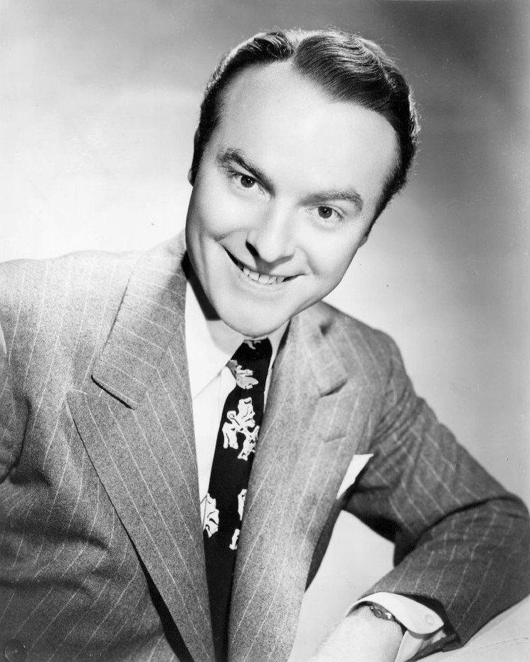 Photo of Ralph Edwards, the long-time host of the game show Truth or Consequences on radio and television.